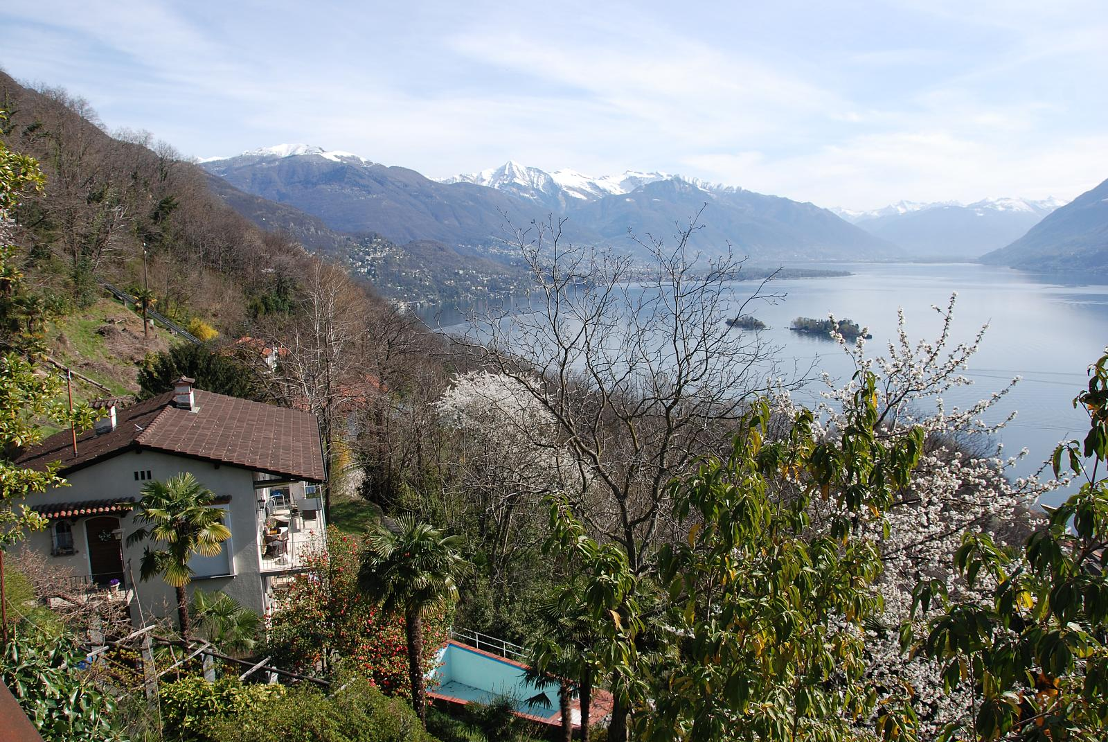 View from the Porta section of Brissago, Ticino, Switzerland looking over Lake Maggiorre